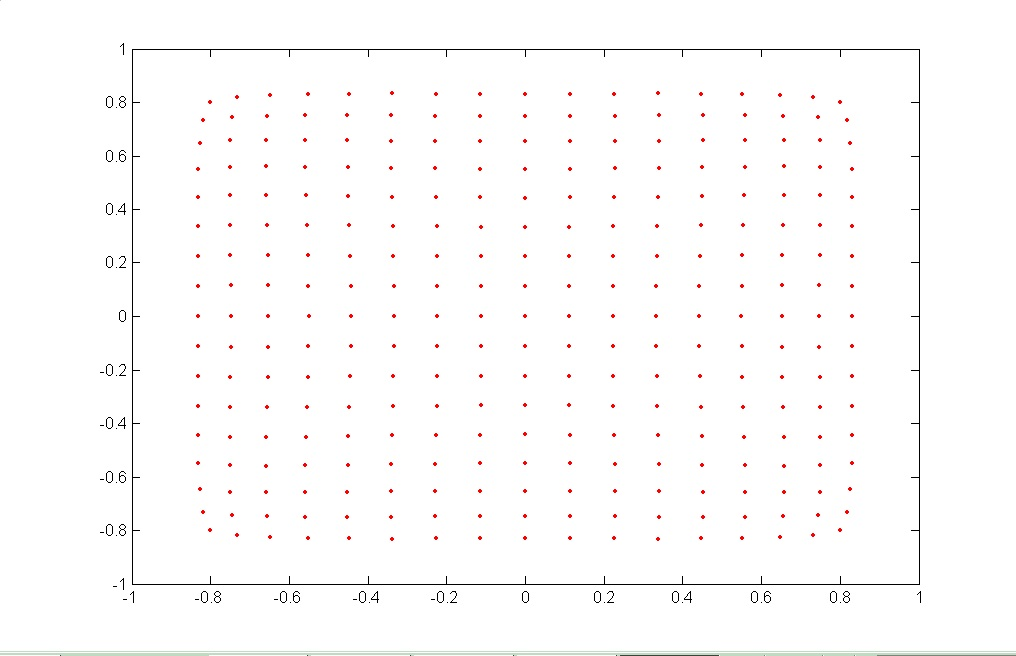 The position response of 2-D Position Sensitive Device by using formulae developed by Cui, S. and Soh, Y. C., “Linearity indices and linearity improvement of 2-D tetra-lateral position sensitive detector”, IEEE Transactions on Electron Devices, Vol. 57, No. 9, pp. 2310-2316 (2010).